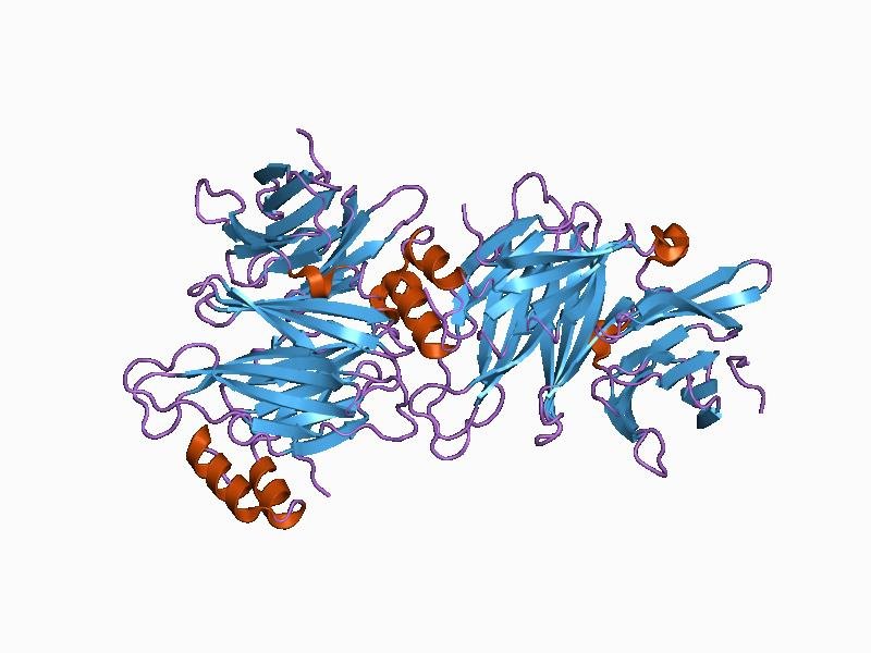 Cartoon representation of the molecular structure of protein registered with 1c9l code.